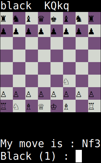 gnuchess terminal mode graphic using unicode